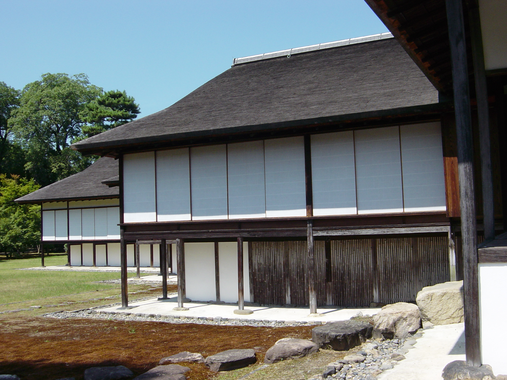 Chū-shoin, Katsura Imperial Villa